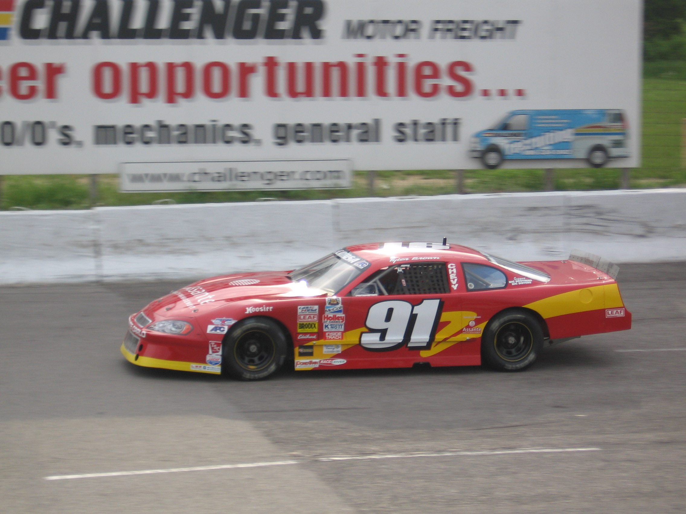 A photo of Late Model style race car. Photo taken at Delaware Speedway in 2006 by myself.